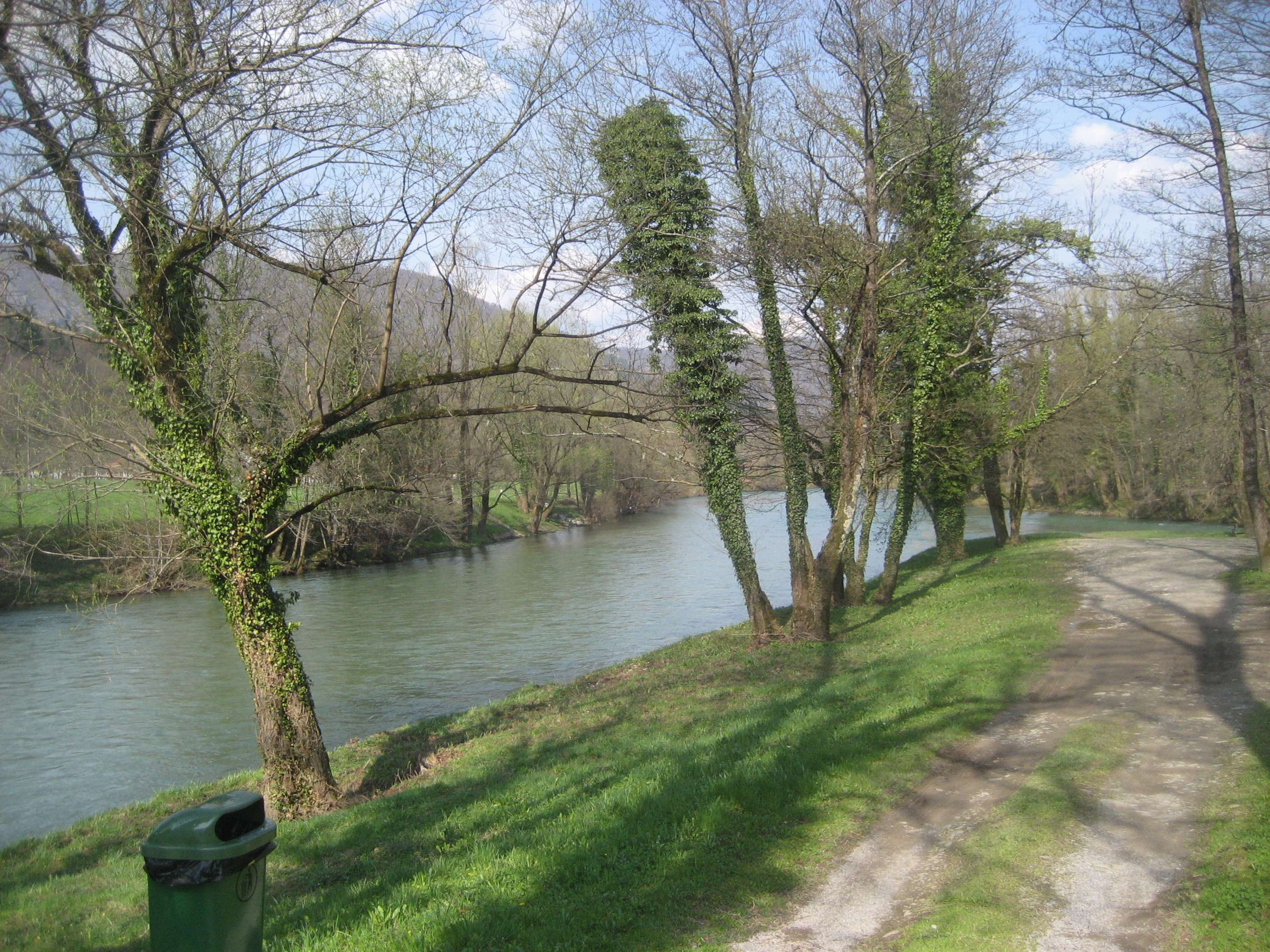 River Kupa, Brod na Kupi in Croatia